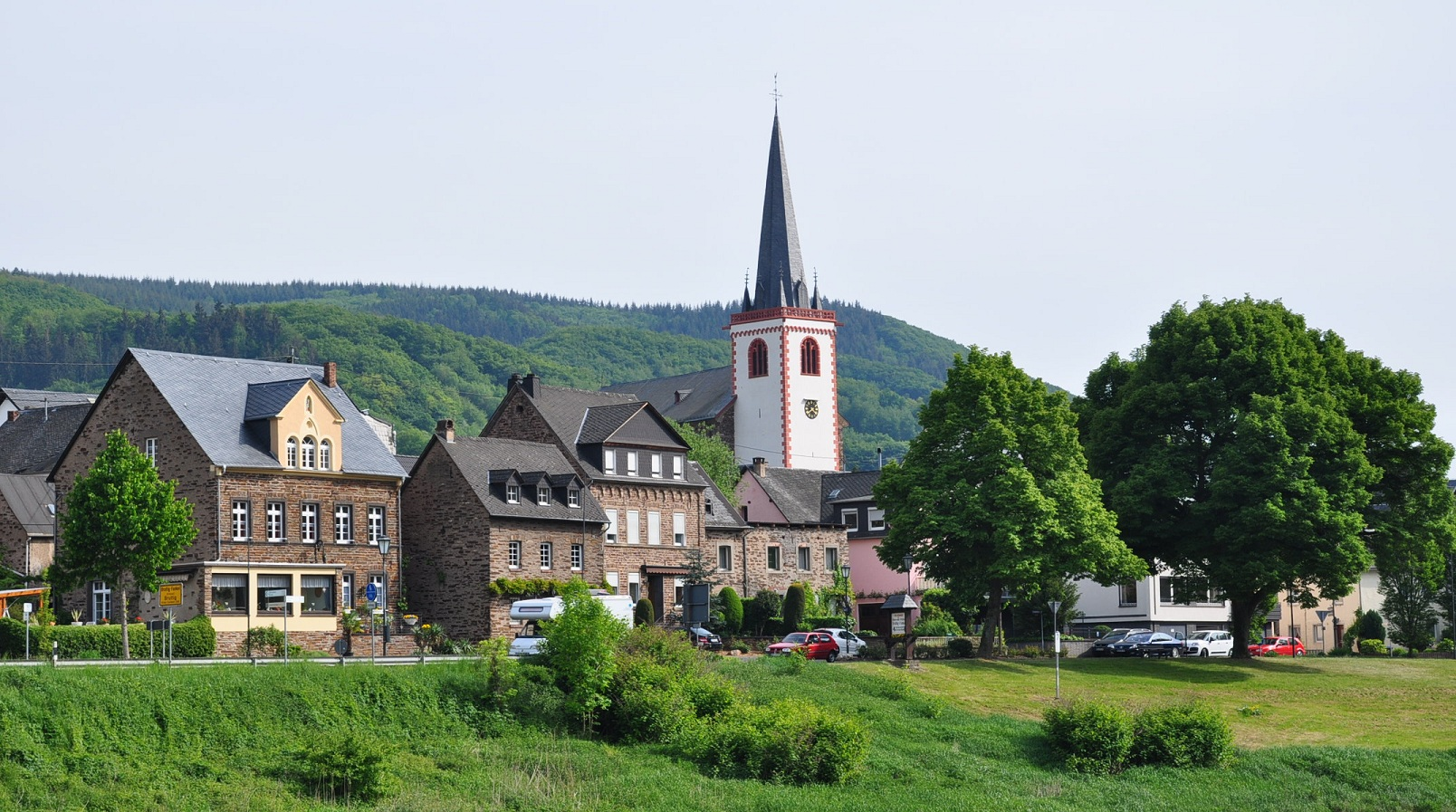 Bruttig-Fankel as seen from the river Moselle (Cochem-Zell district, Rhineland-Palatinate, Germany). The image shows "Am Moselufer" in Bruttig.